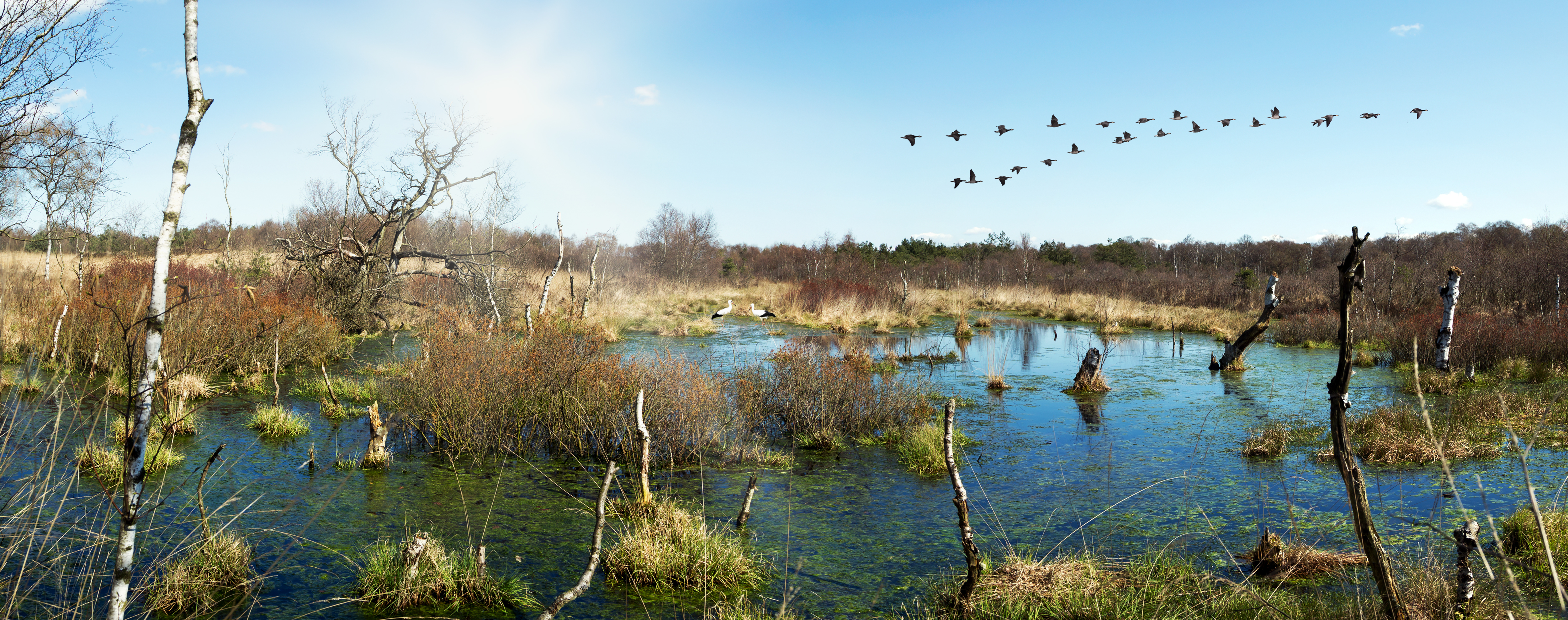 "Dorumer Moor" nature reserve in Geestland, Niedersachsen. Dorumer Moor is a raised bog where large areas have been floaded for ecological restoration. This is a retouched picture, which means that it has been digitally altered from its original version. Modifications: All the birds were pasted into this scenery. Two suns; one in front, one behind camera from the right.